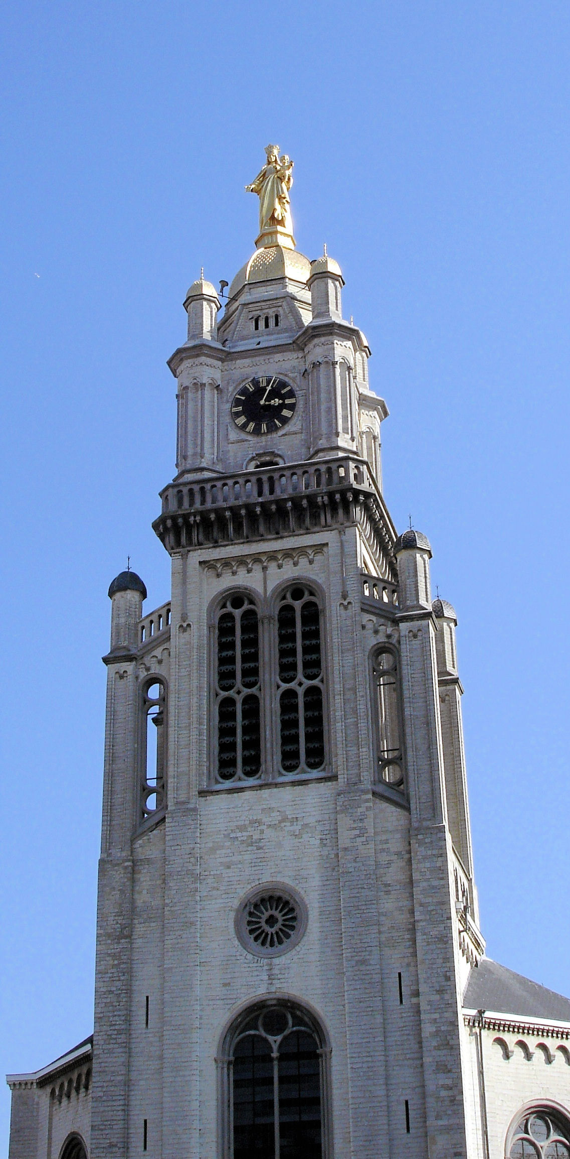 own work